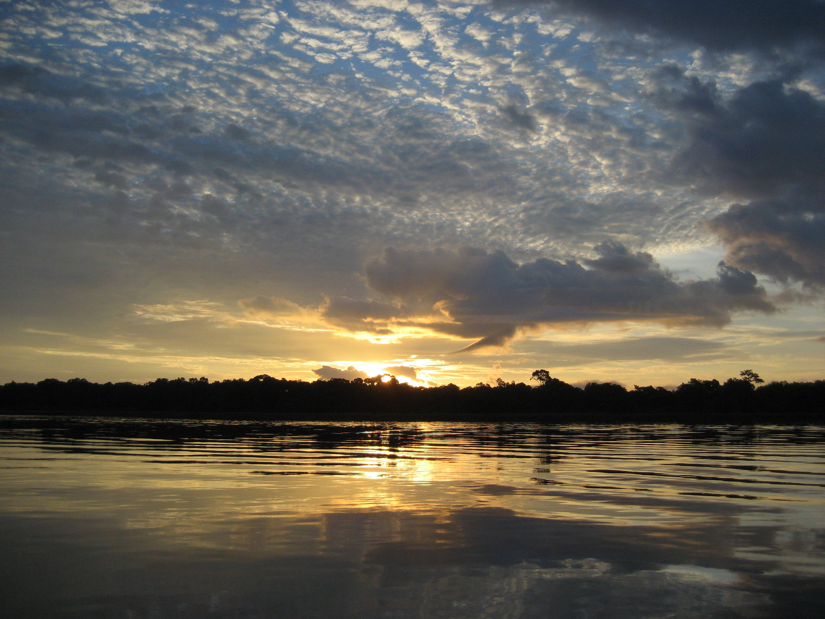 Sunrise on the Congo River near Mossaka (Republic of the Congo).